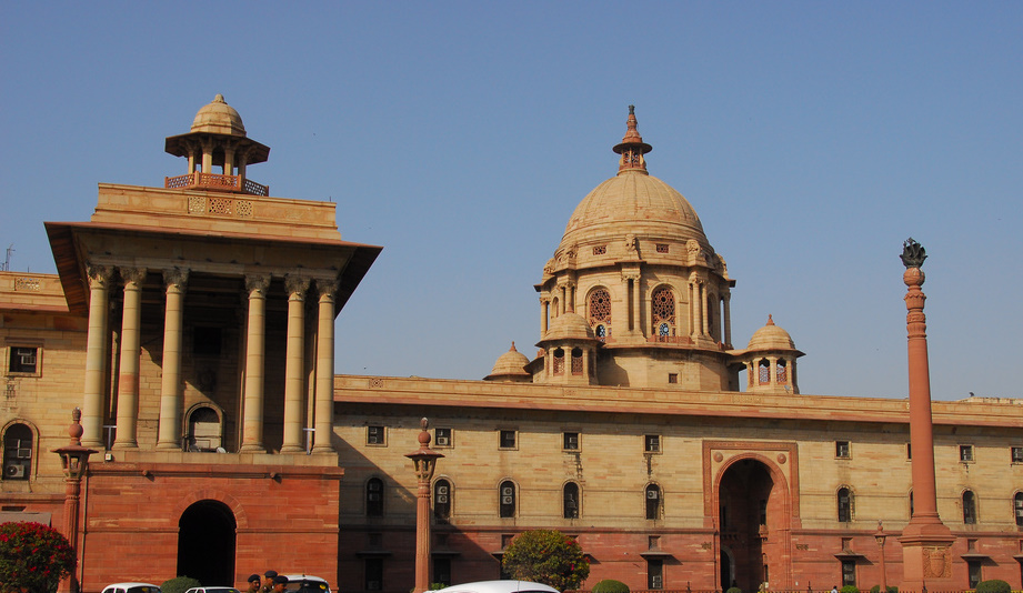 The North block of the secretariat buildngs in New Delhi, adjoining the Rashtrapati Bhavan.